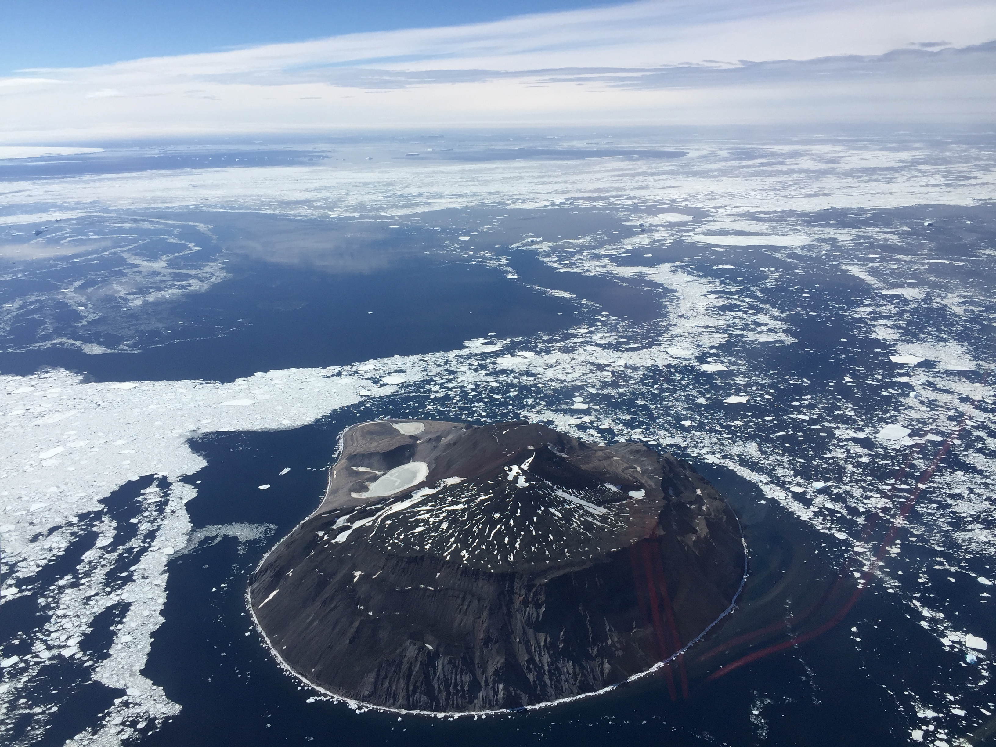 Bransfield Island off the tip of the Antarctic Peninsula surrounded by sea ice, as seen during Operation IceBridge's "Seelye Loop" mission on Oct. 27, 2016.(NASA/Nathan Kurtz)